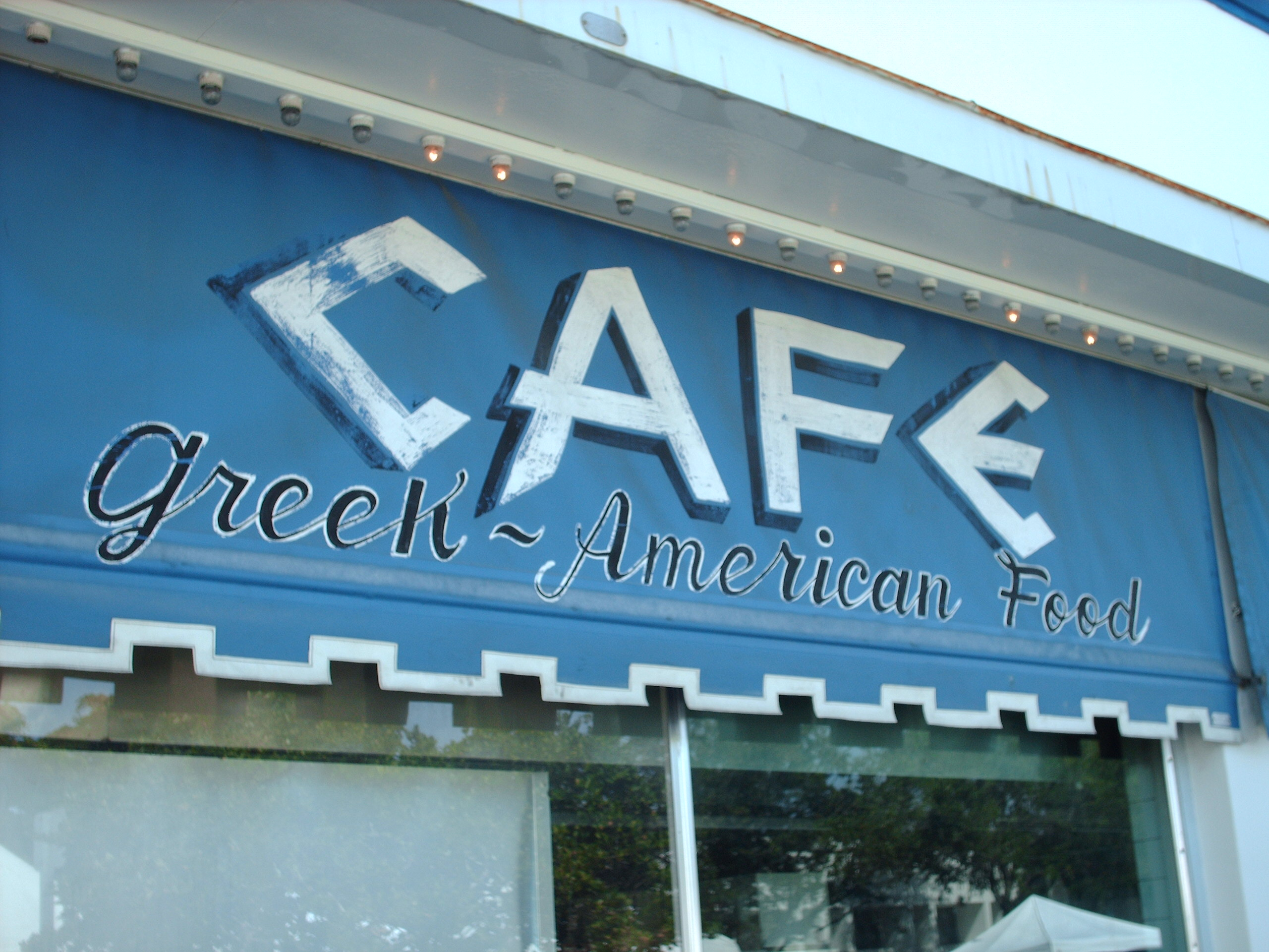 Greek restaurant in Sarasota, Florida